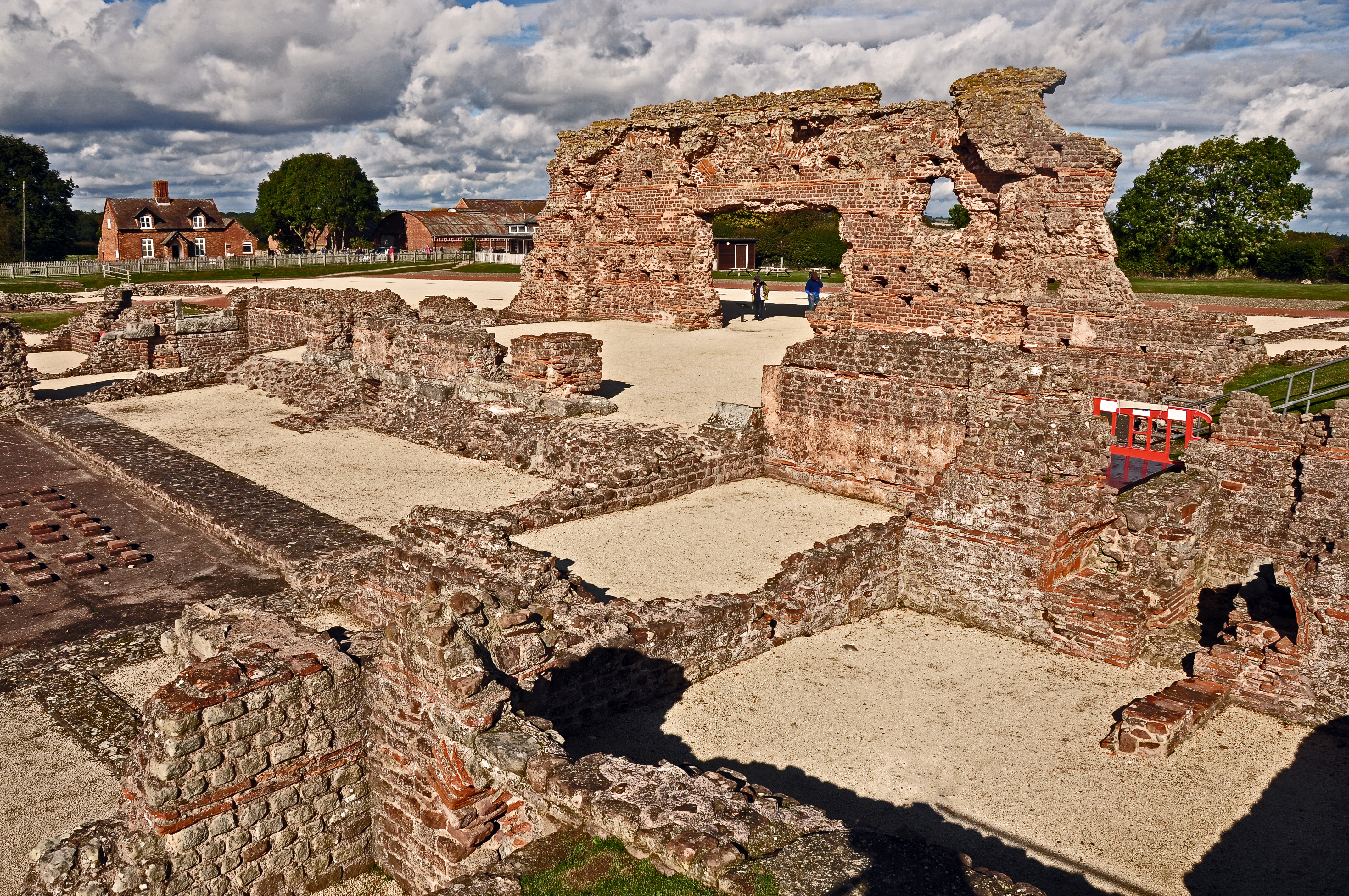 Roman ruins at Wroxeter